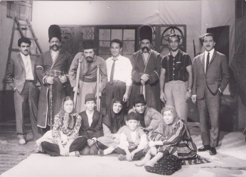 Gholam-Hossein Saedi (1936-1985), novelist and playwright. تورکجه: سولدان ساغا: ساعدی، كشاورز، نصیریان، جعفر والی و...